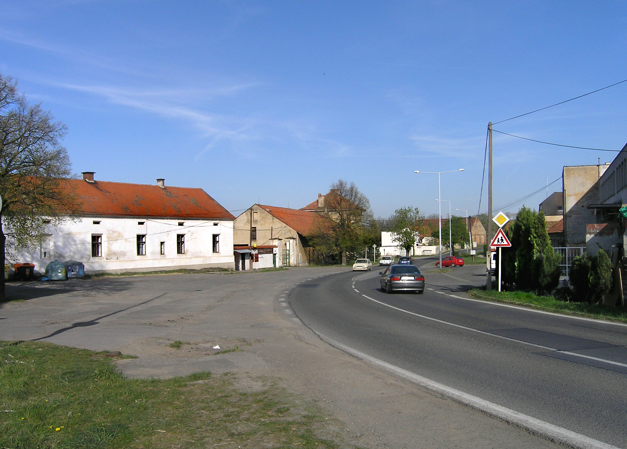 Common at Cholupice, Prague.